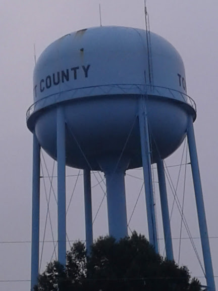 Water tower, which was the tallest, that is located near West C Street in Erwin, NC.